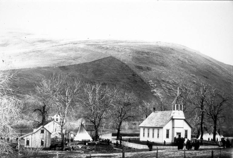 Nez Perce encampment, possibly Spalding, Idaho